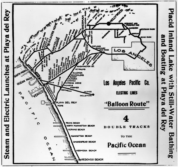 Balloon Route -Los Angeles Pacific map 1905